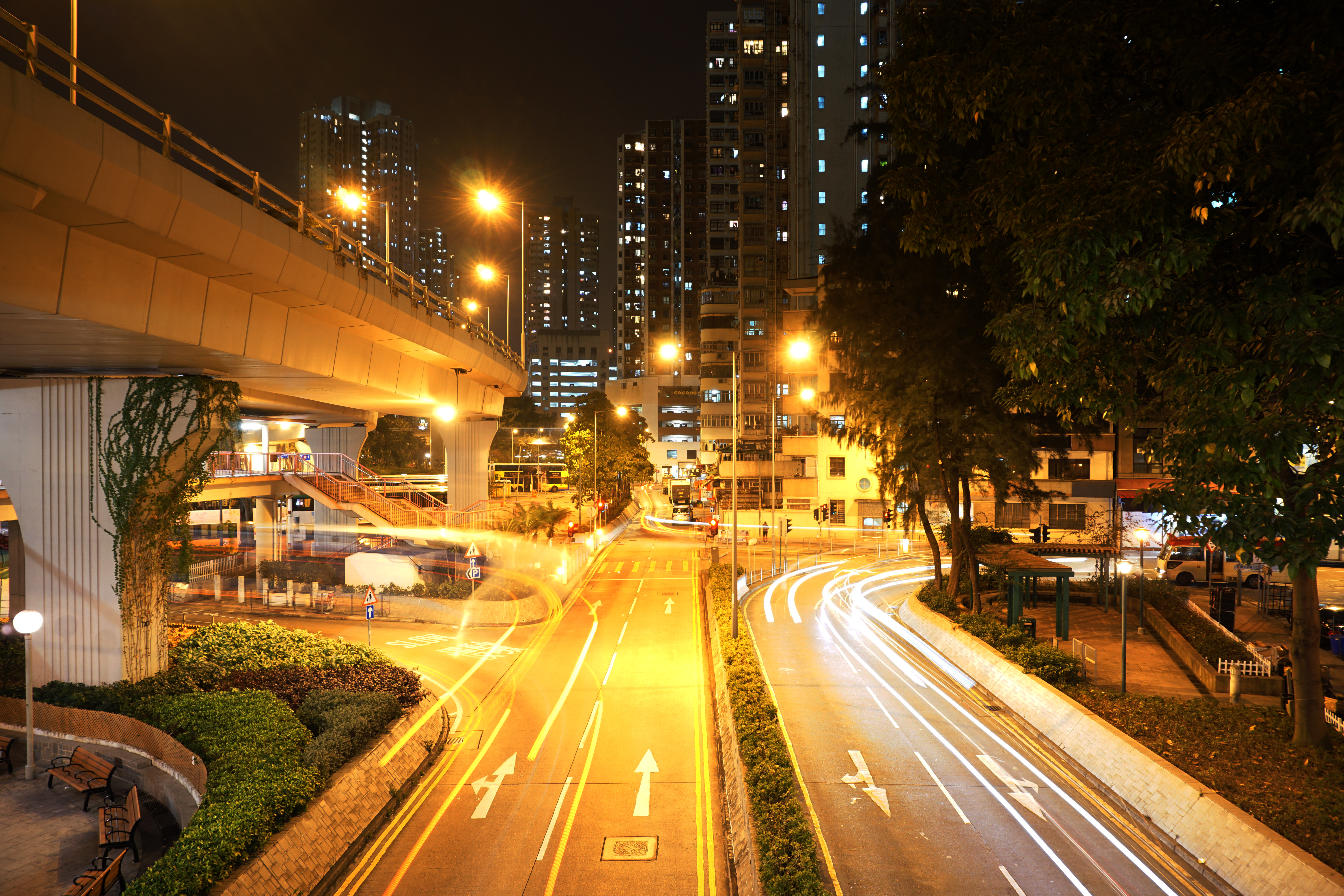 Aldrich Street in Shau Kei Wan, Hong Kong.